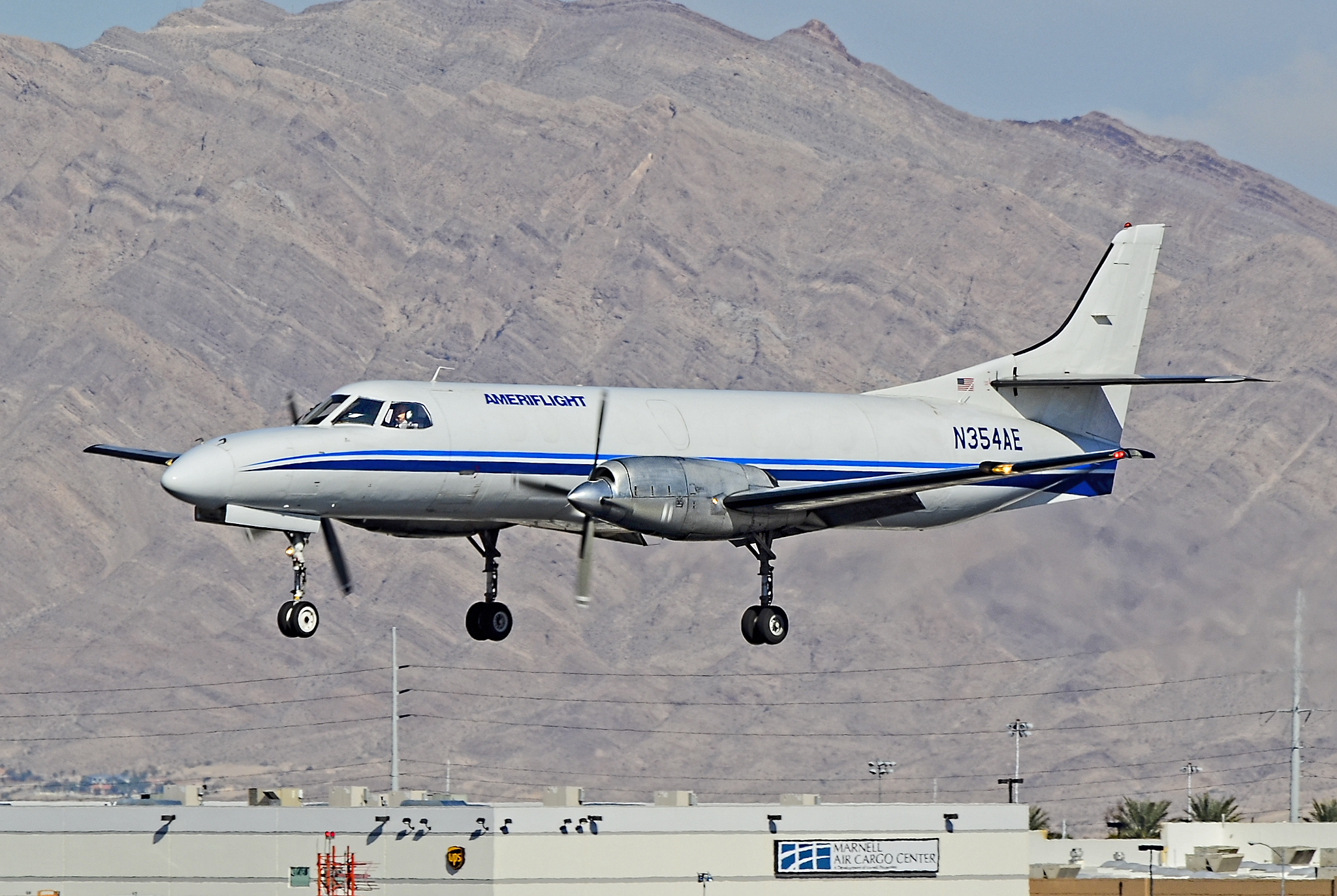 Las Vegas - McCarran International (LAS / KLAS) USA - Nevada, October 24, 2013 Photo: Tomás Del Coro